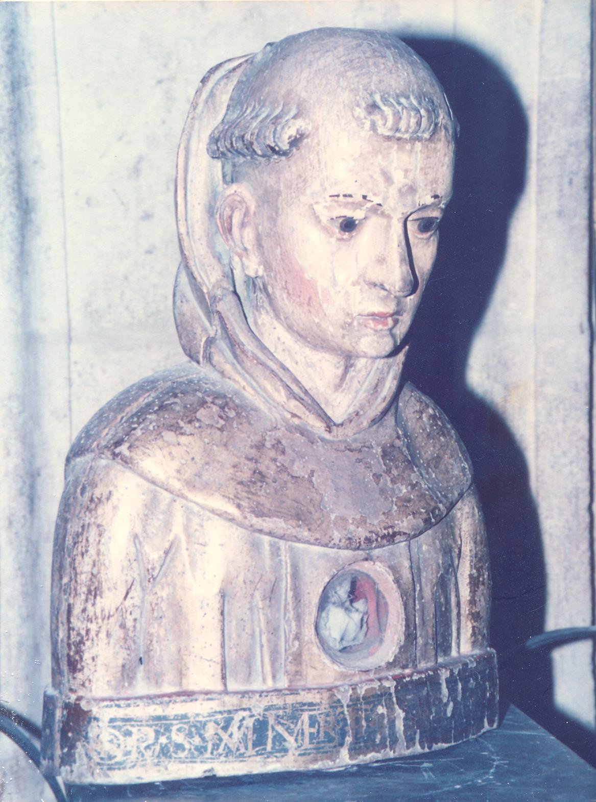 Bust reliquary of Saint Manes which keeps a little piece of bone. Saint Mary church of Gumiel de Izán (Burgos, Spain)